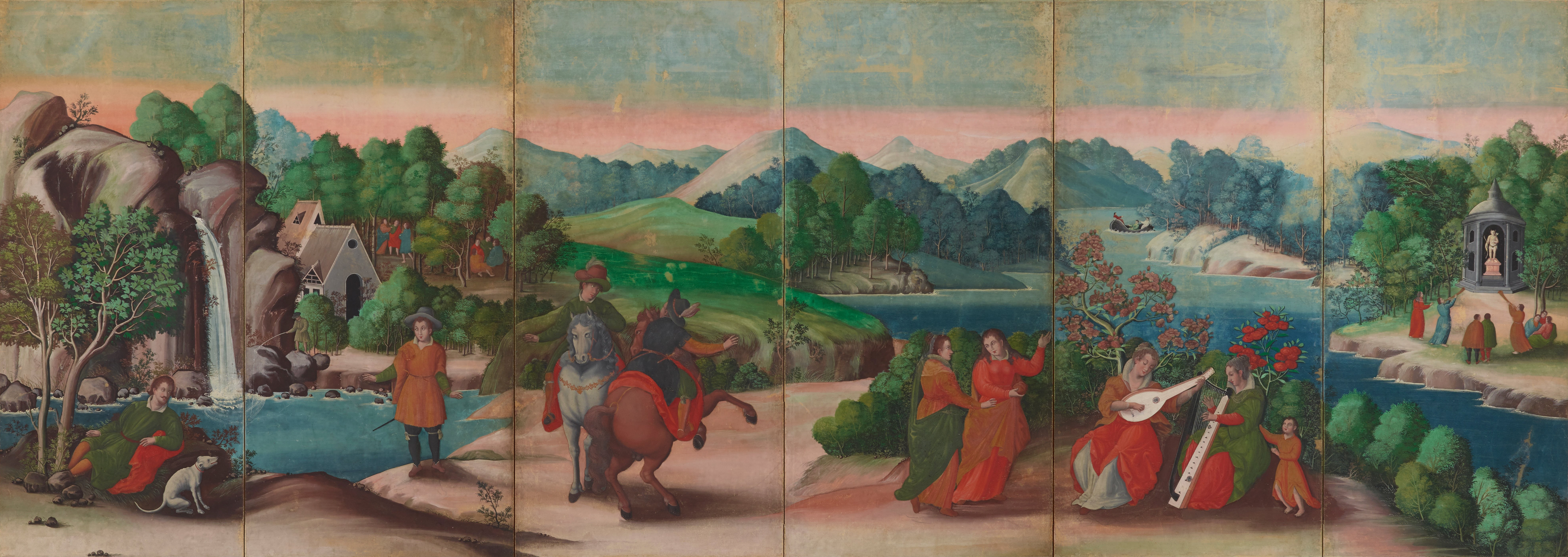 Western Manners and Customs, byobu (Fukuoka Art Museum)